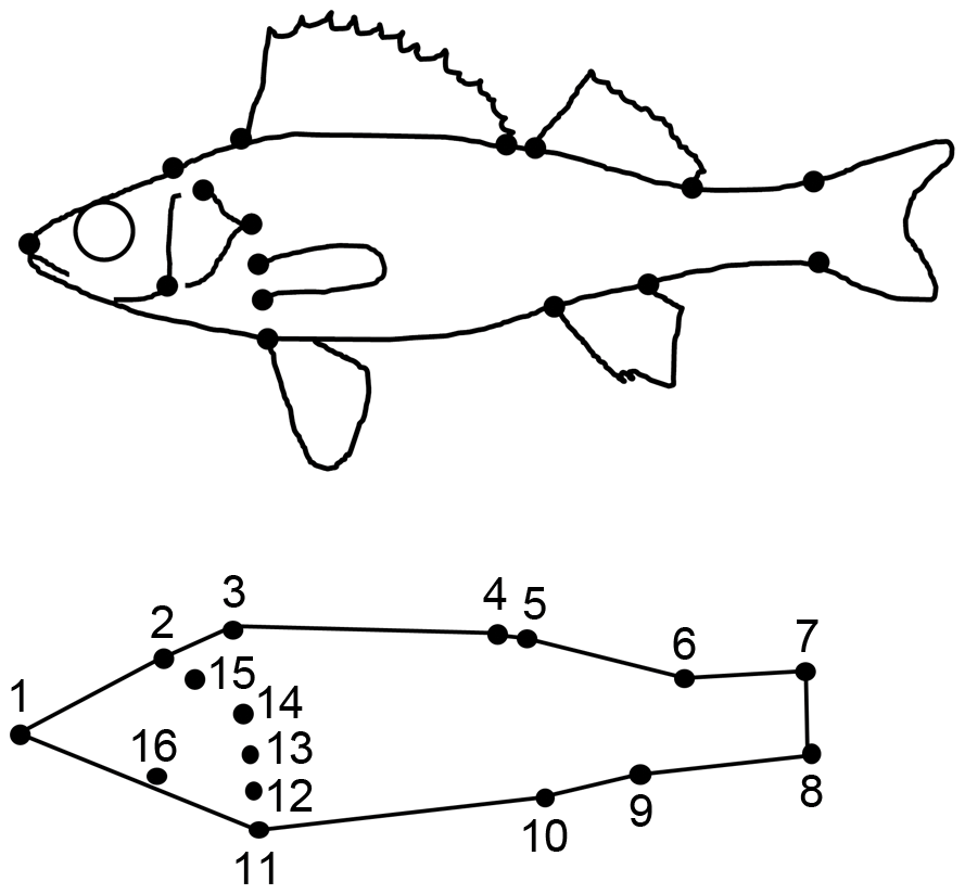 Morphometric landmarks on a Eurasian perch (Perca fluviatilis)